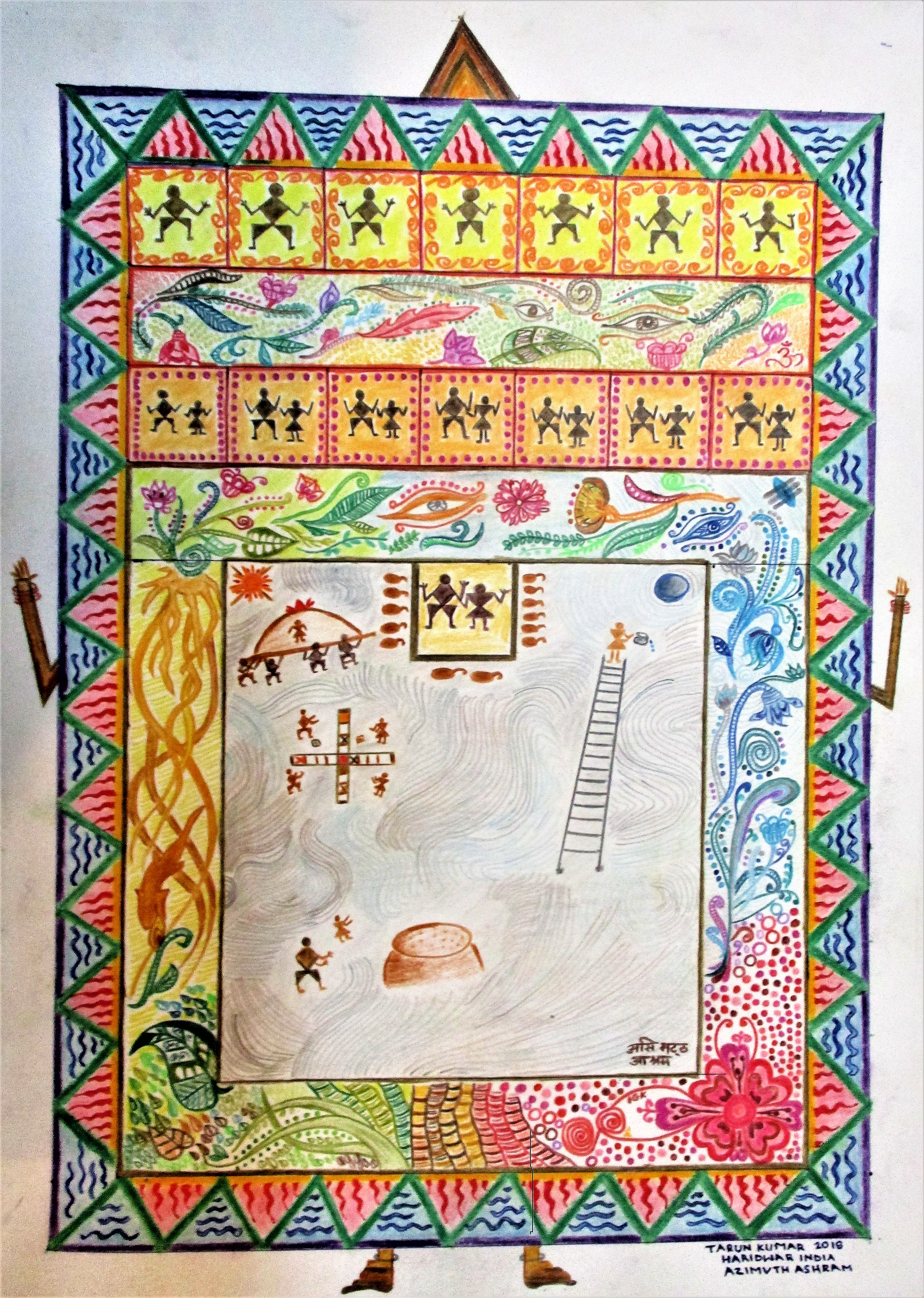 Ahoi Ashtami at AZIMVTH Ashram at Haridwar in India.